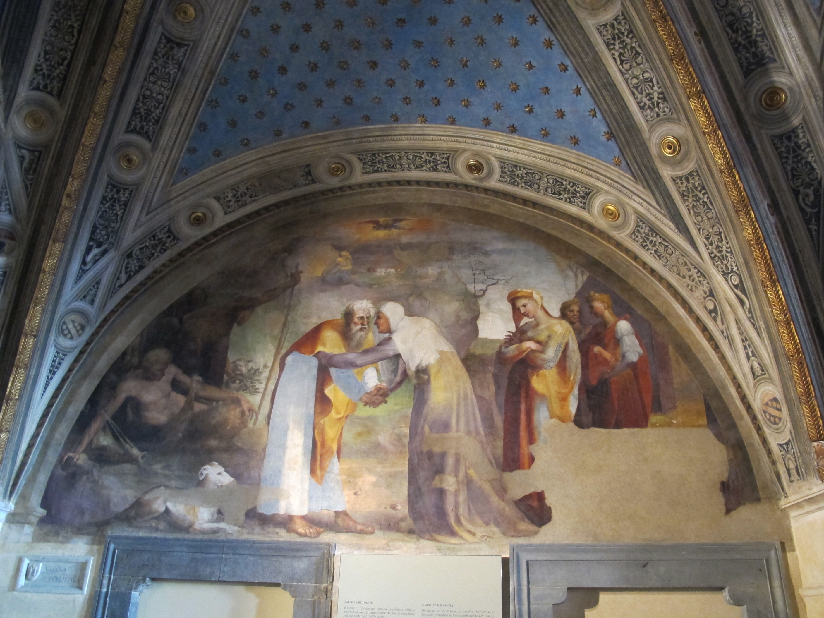 Santa Maria della Scala Hospital (Siena)